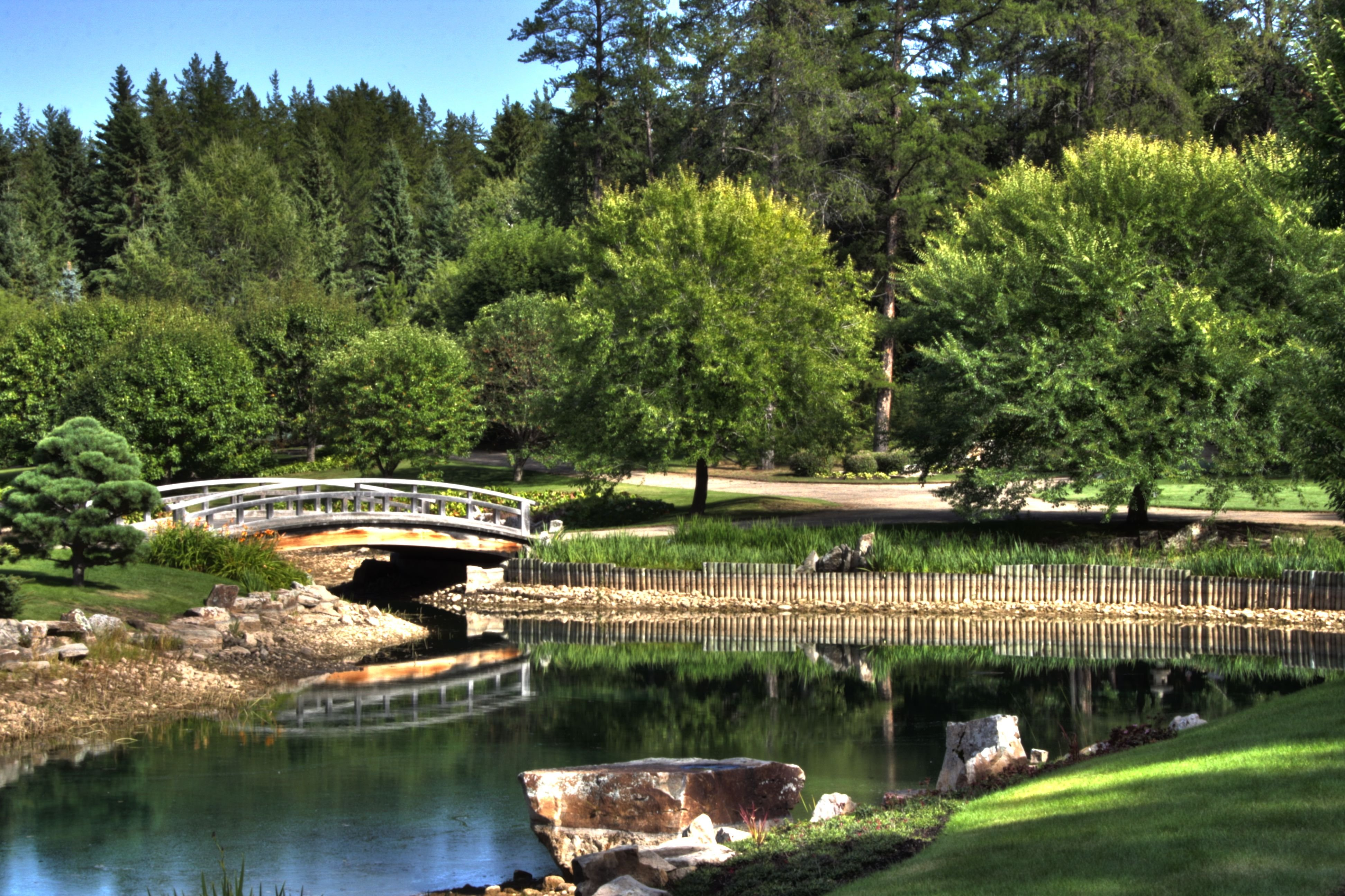 Small central lake and bridge in the Japanese Garden section of the Devonian Botanical Garden, Edmonton, Alberta, Canada.